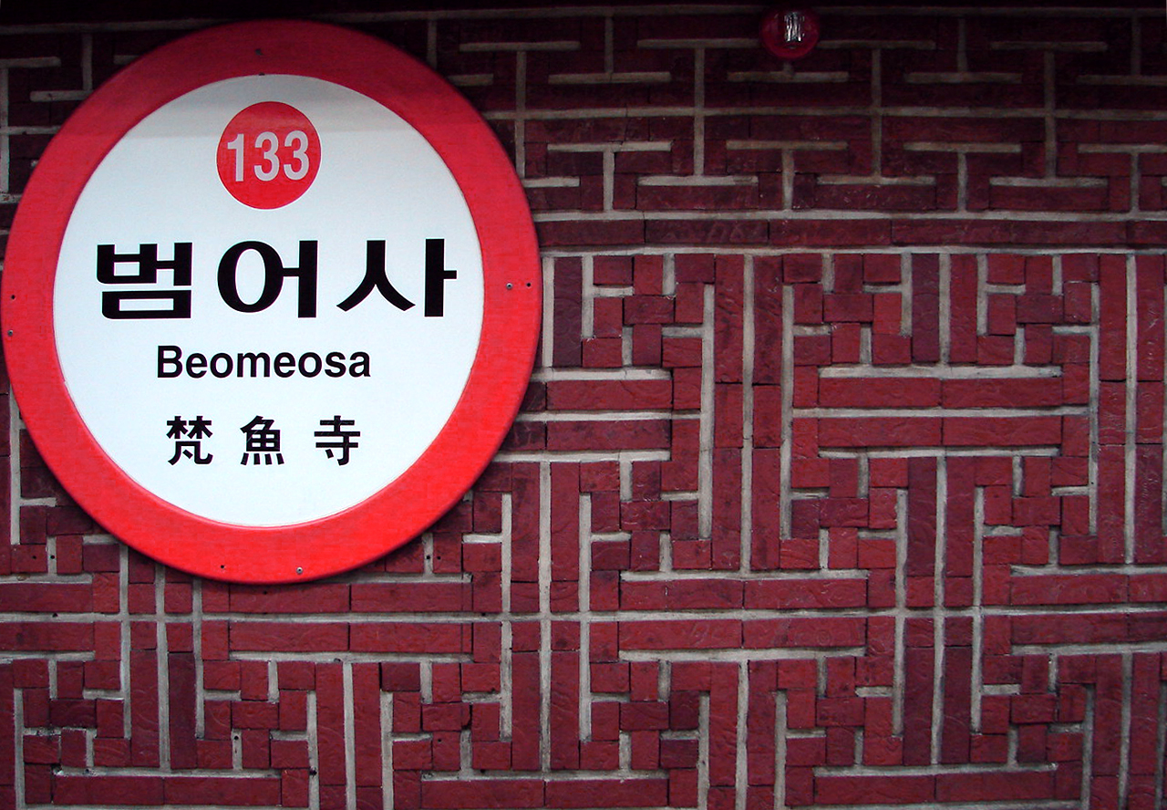 Beomeosa(Beomeo Temple) Station 133 (Busan Subway #1)